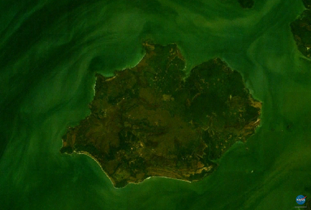 Uno Island, Bijagos